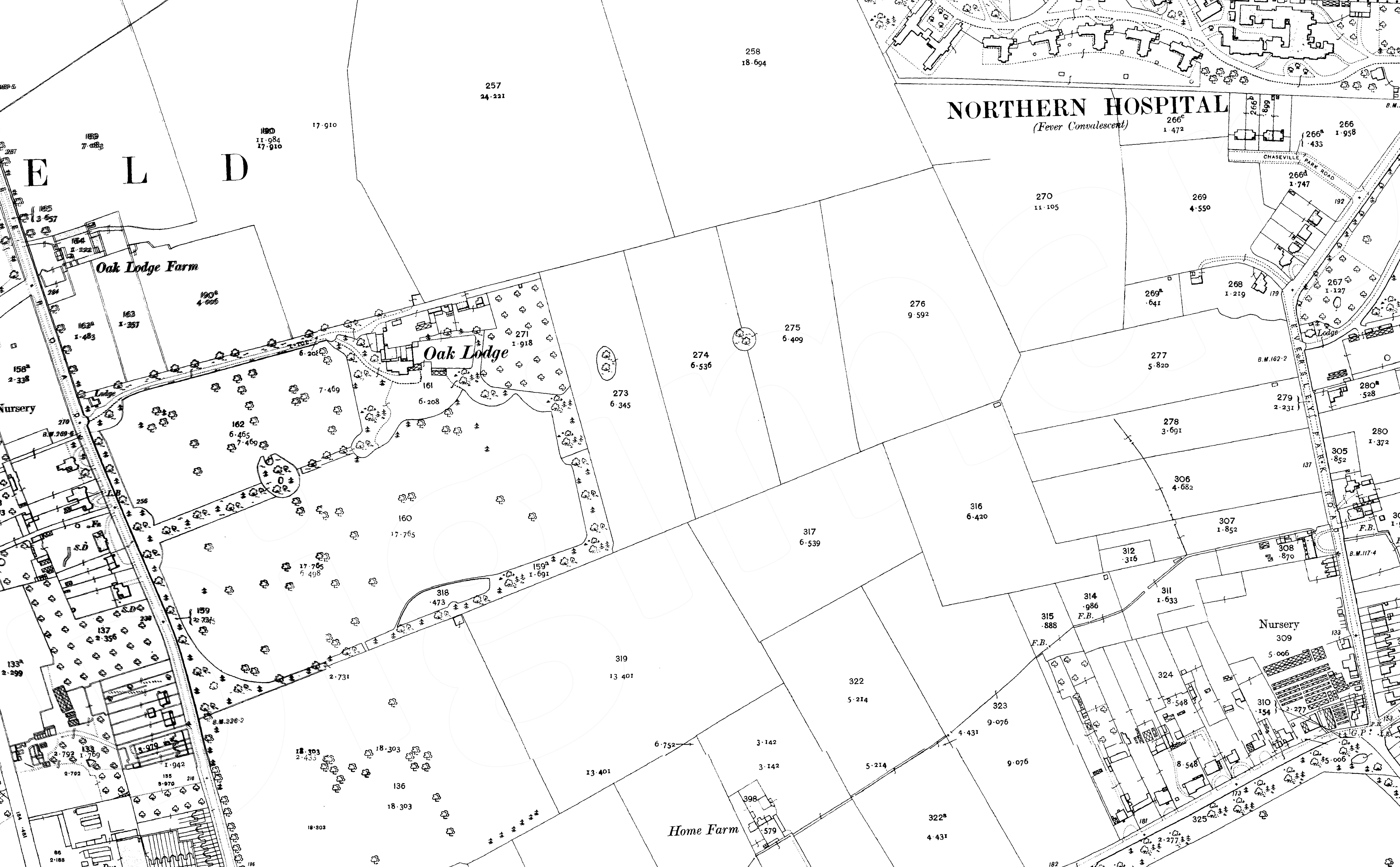 Oak Lodge, site of Oakwood Park